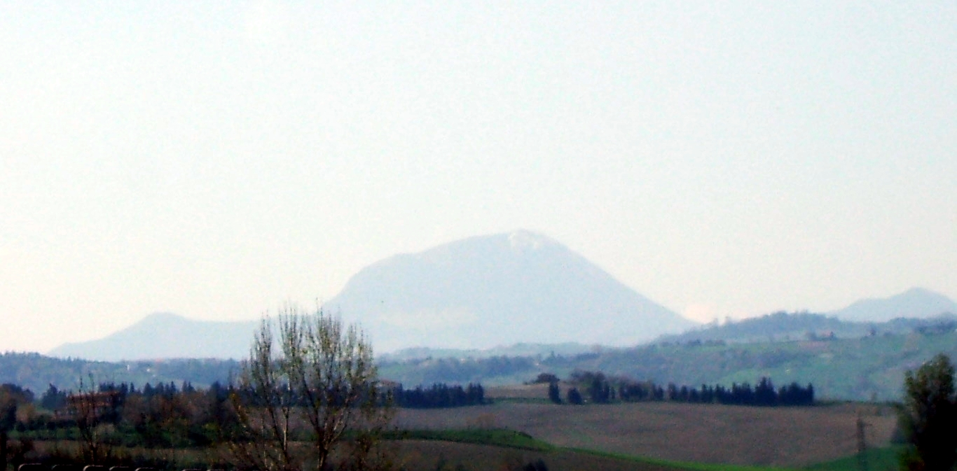 Monte San Vicino as seen from Castelplanio